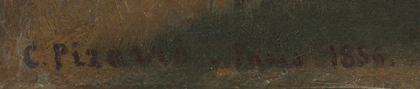 detail: signature of the painting